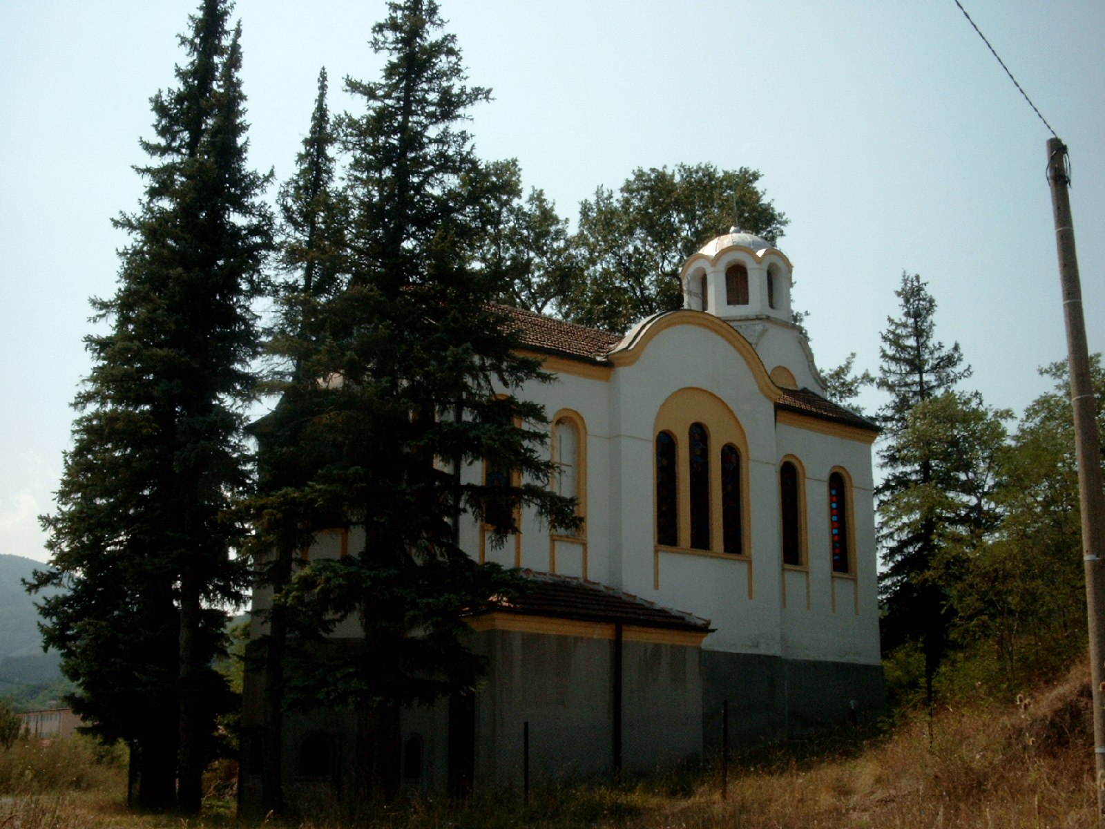 Church of the Holy Trinity, Gyueshevo, Kyustendil Province, Bulgaria